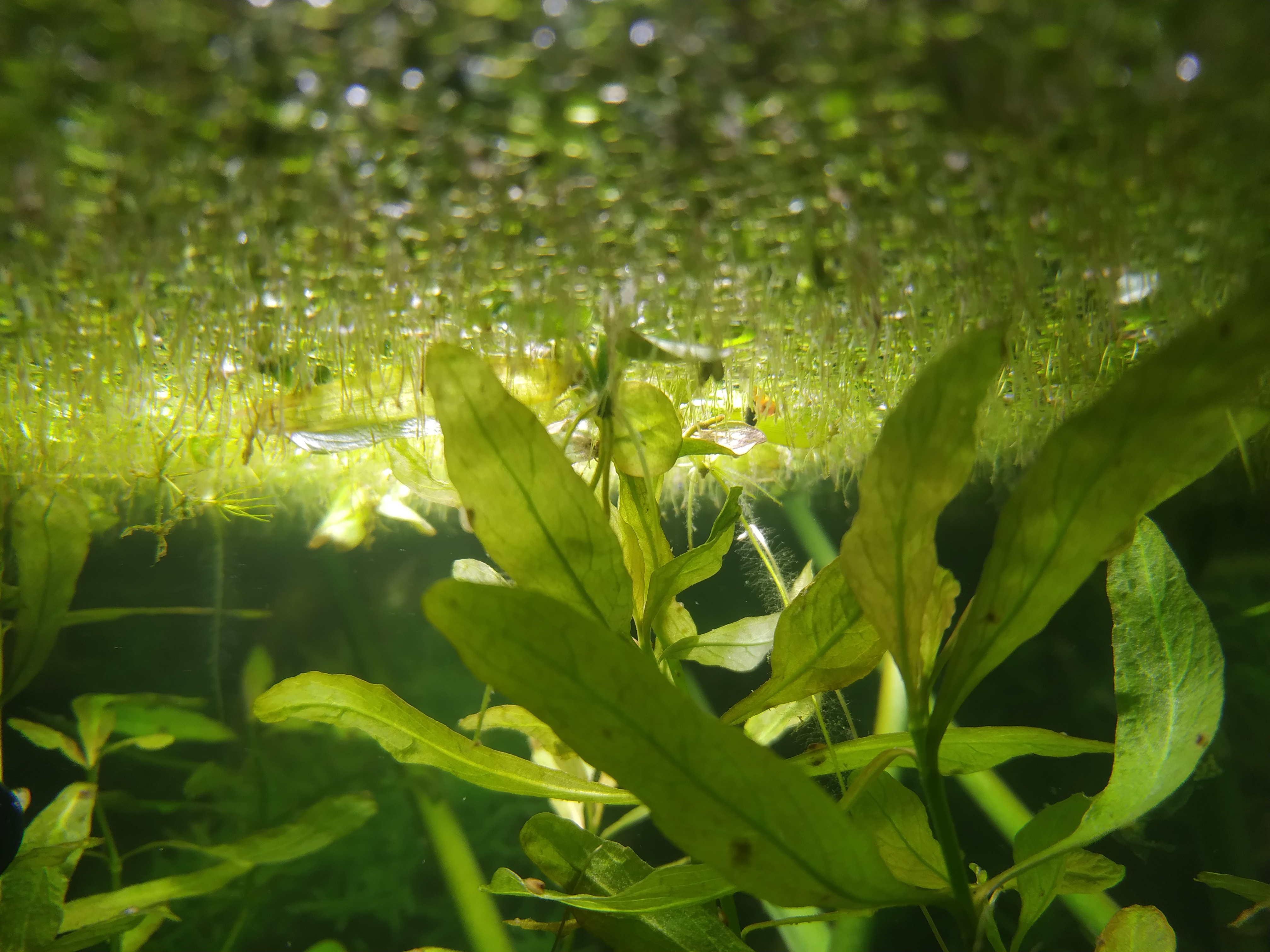 Duckweed